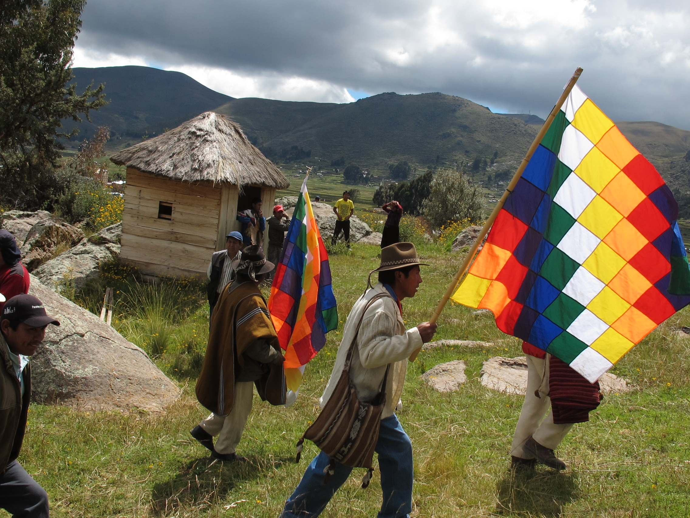 Photos of a traditional Aymara ceremony in Copacabana, on the border of Lake Titicaca in Bolivia.